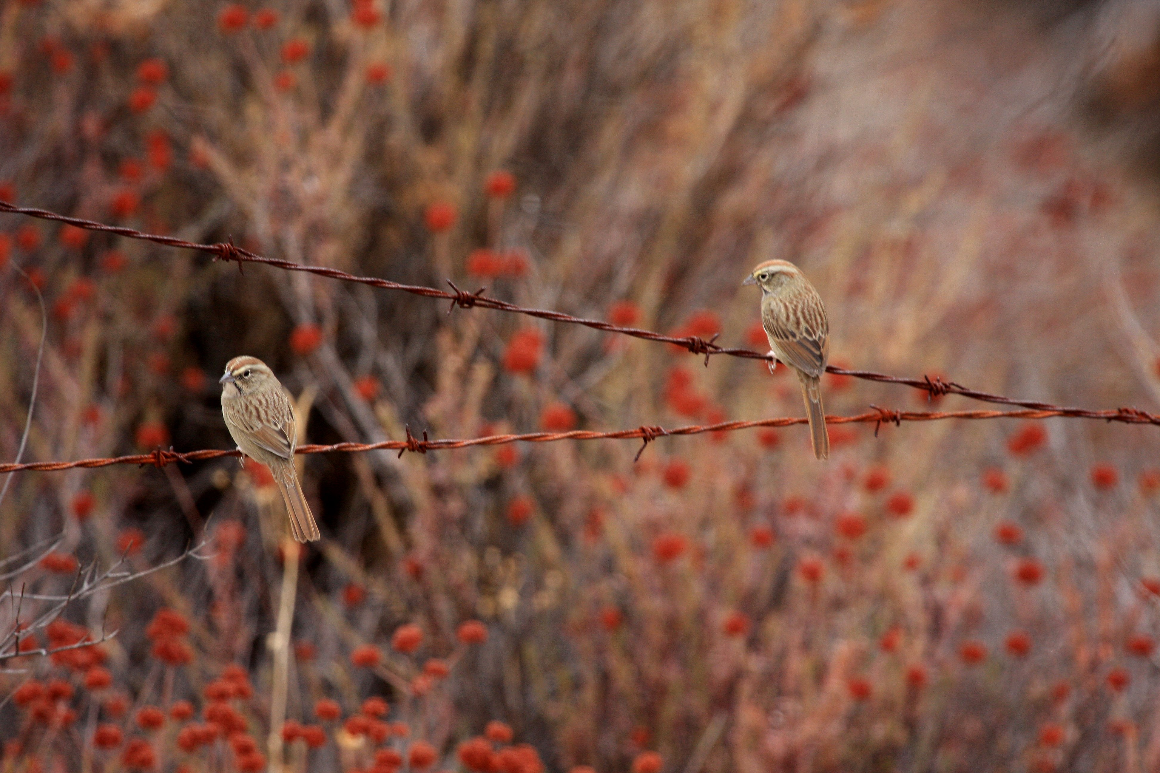 Rufous-crowned Sparrow, Aimophila ruficeps, Panoche, California